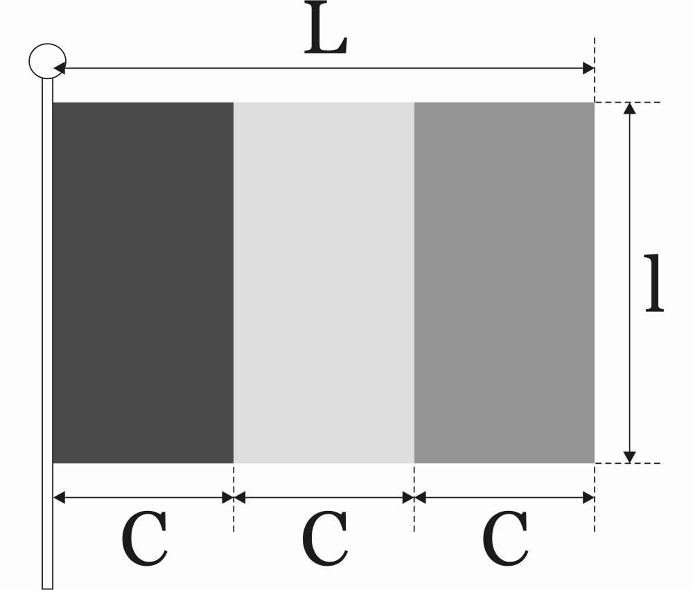 Construction sheet of the Flag of Romania as depicted in Law nr. 75 from 26 August 1994. l = 2/3*L C = 1/3*L Colors: Cobalt blue, Chrome yellow, Vermillon red.